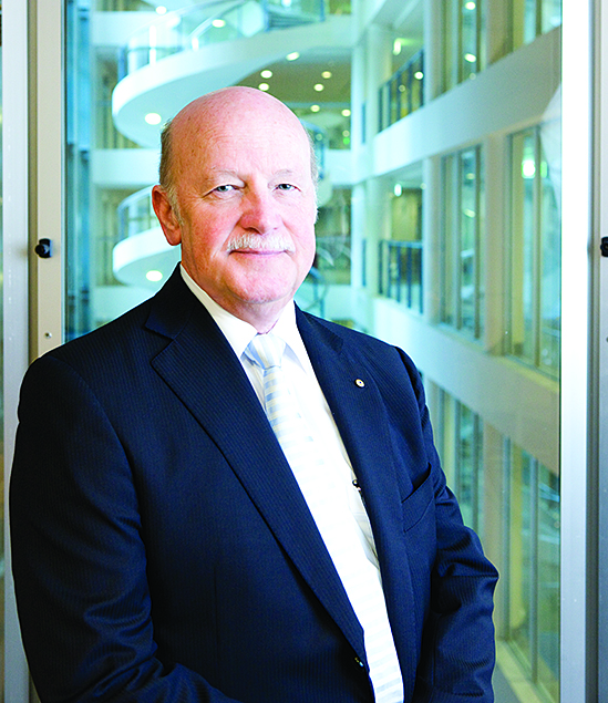 Professor John Shine at the Garvan Institute of Medical Research, with the Institute's DNA helix spiral staircase in the background.